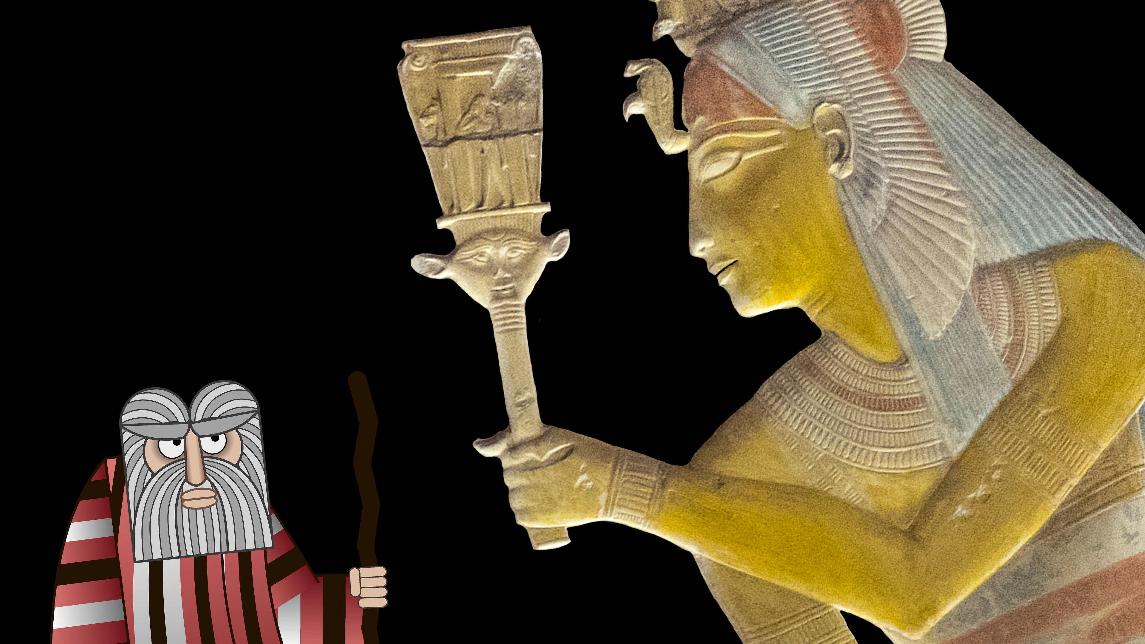 Still from the 2018 animated feature film Seder-Masochism by Nina Paley.